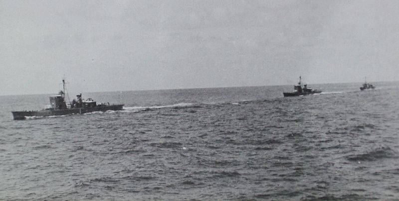 IJN submarine chaser No.1, No.2 and No.3 (left to right)